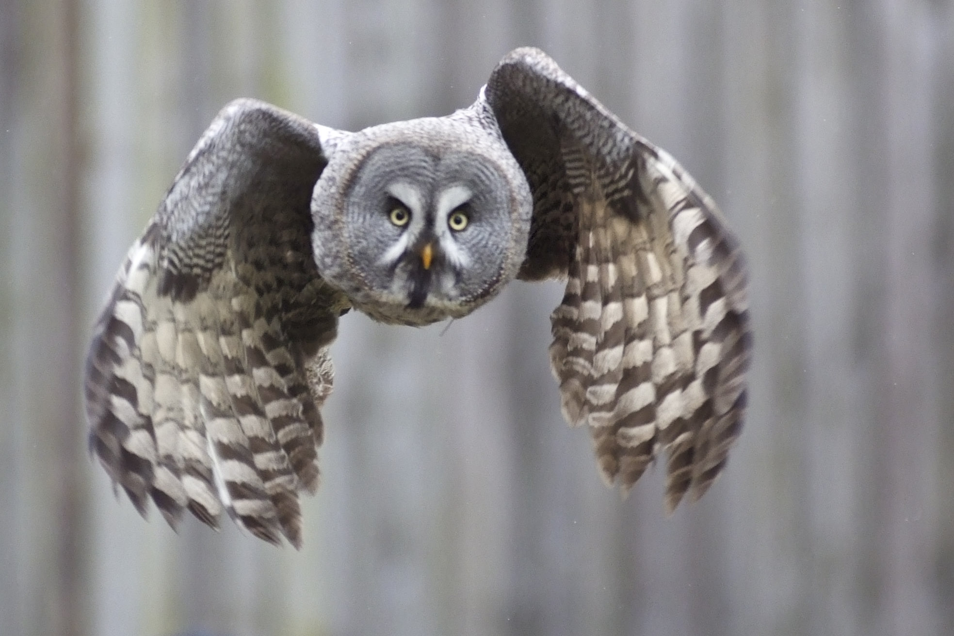 Great grey owl (Strix nebulosa), Eekholt Tierpark (zoo).